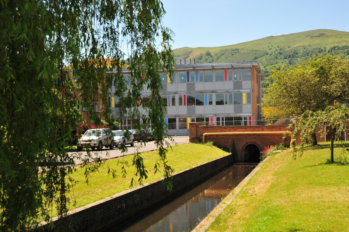 Photograph of The Chase School. A view of the stream in front of the Science Block with the Malvern Hills in the background.